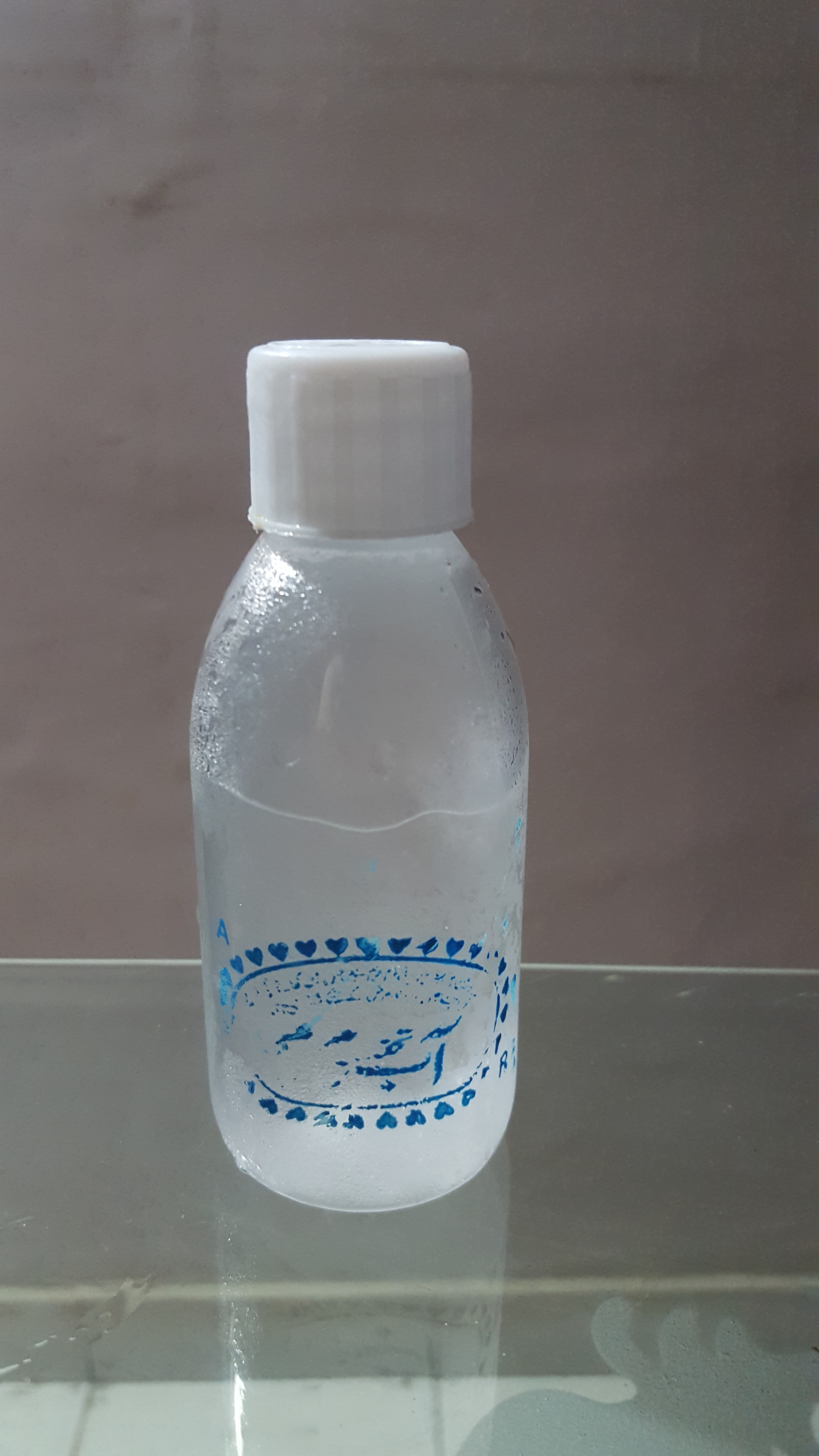 Zamzam water in a plastic bottle distributed in Pakistan. The water in the photograph is frozen. Zamzam water filled in a plastic bottle for non-commercial distribution in Pakistan. This is a typical way distributed to friends and family by people returning from Haj and Umrah in Pakistan.